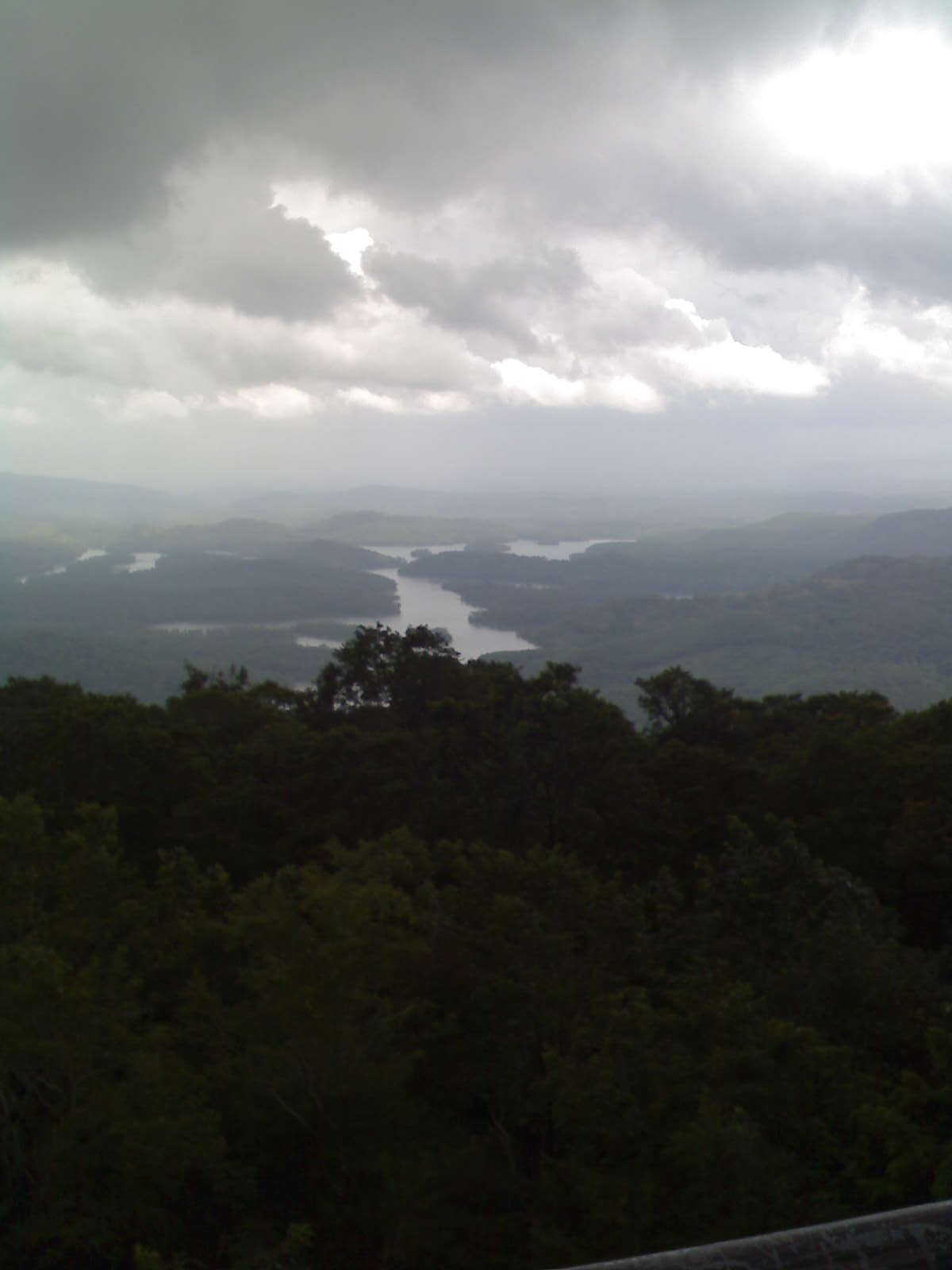 This picture was taken by ME , on my Cell (motoming A1200) !! I hereby declare this pic to be used and downloaded freely by anyone ! Picture was taken from the top of a watchtower on the bonacaud Hills. Shows the peppara Reservoir .